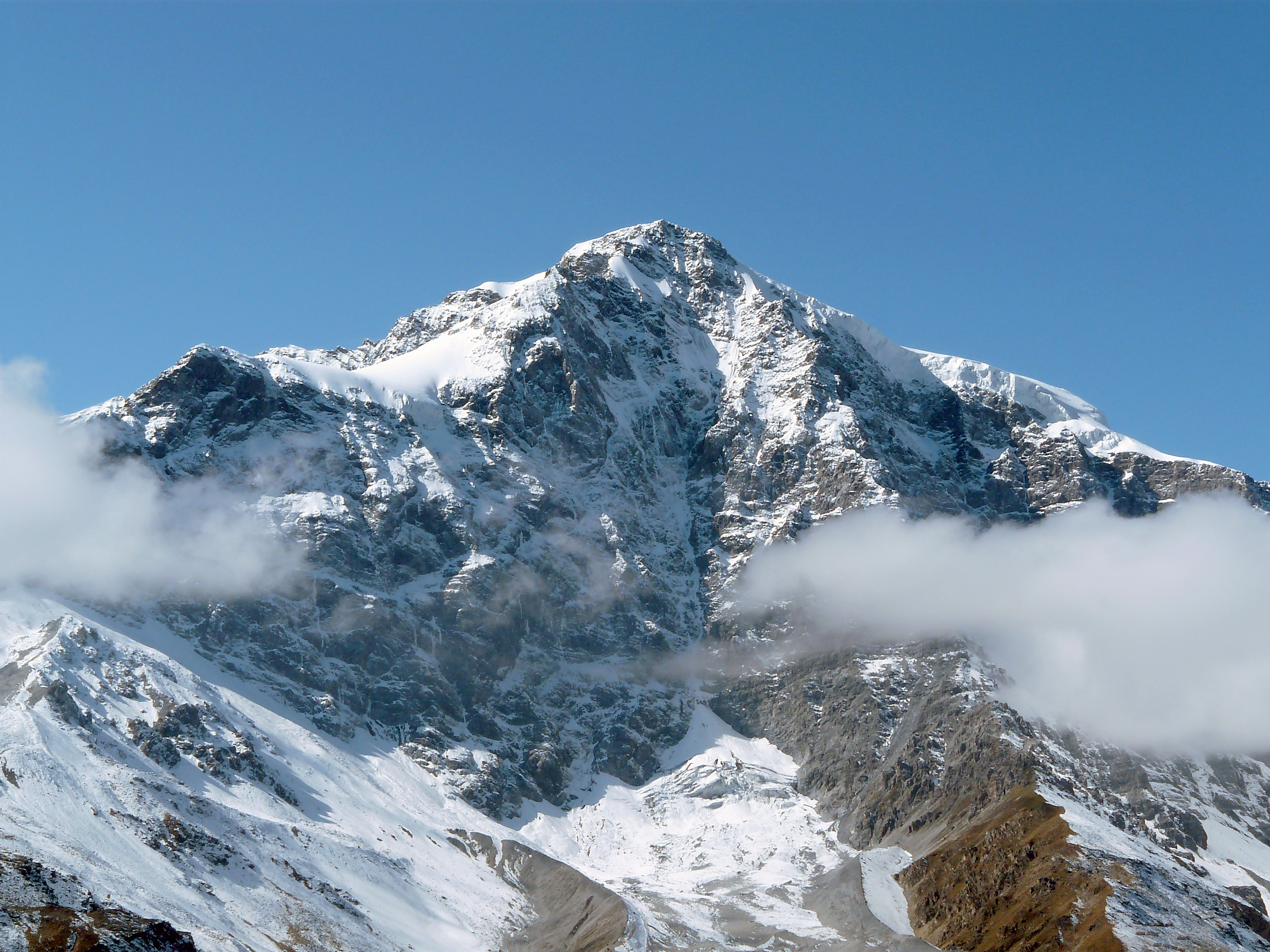 Ortler from east with southeast(Hinter)Grat, Northeast(Martl)Grat and North(Tschierfeck)Grat (from left to right)